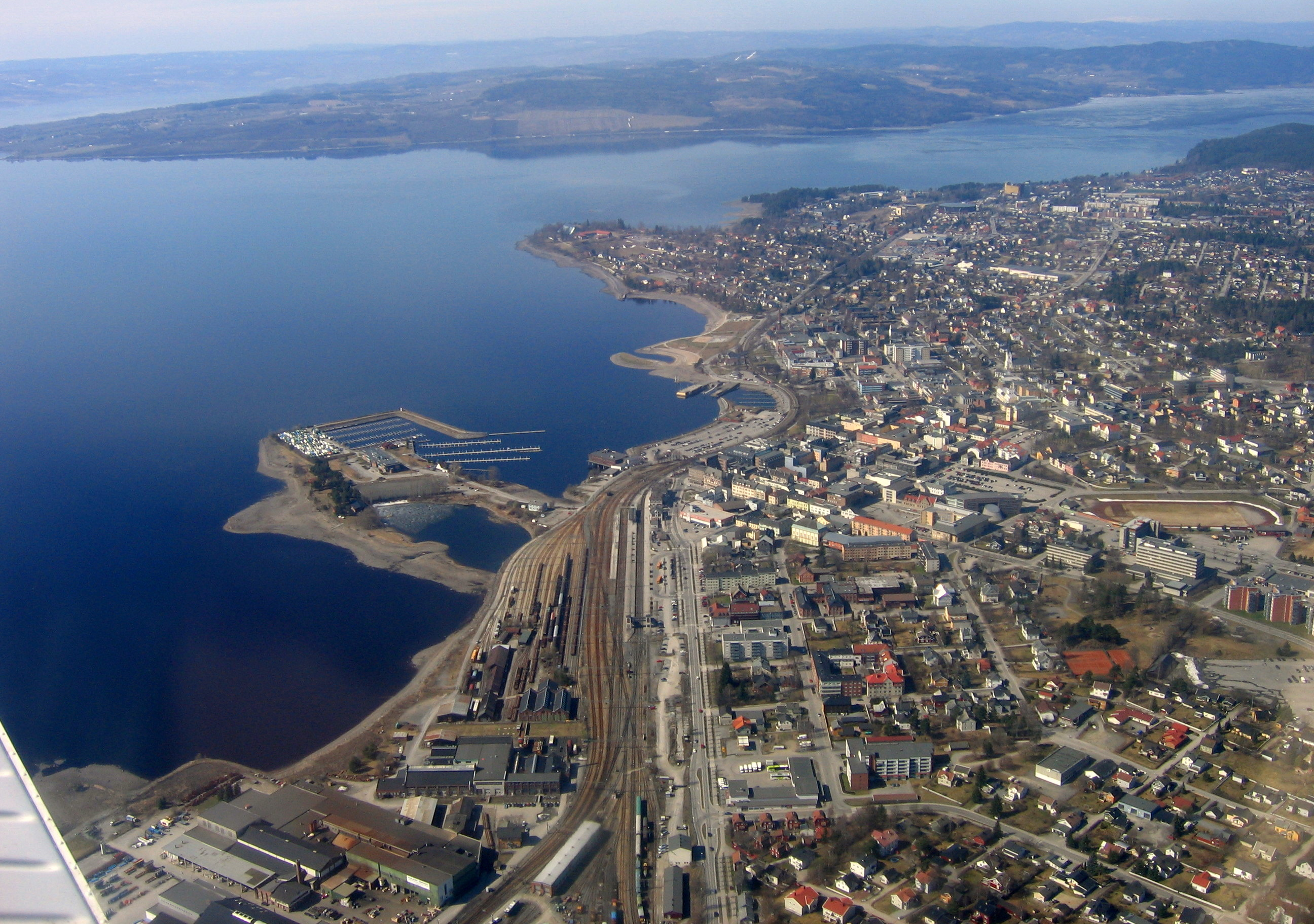 Hamar from air.